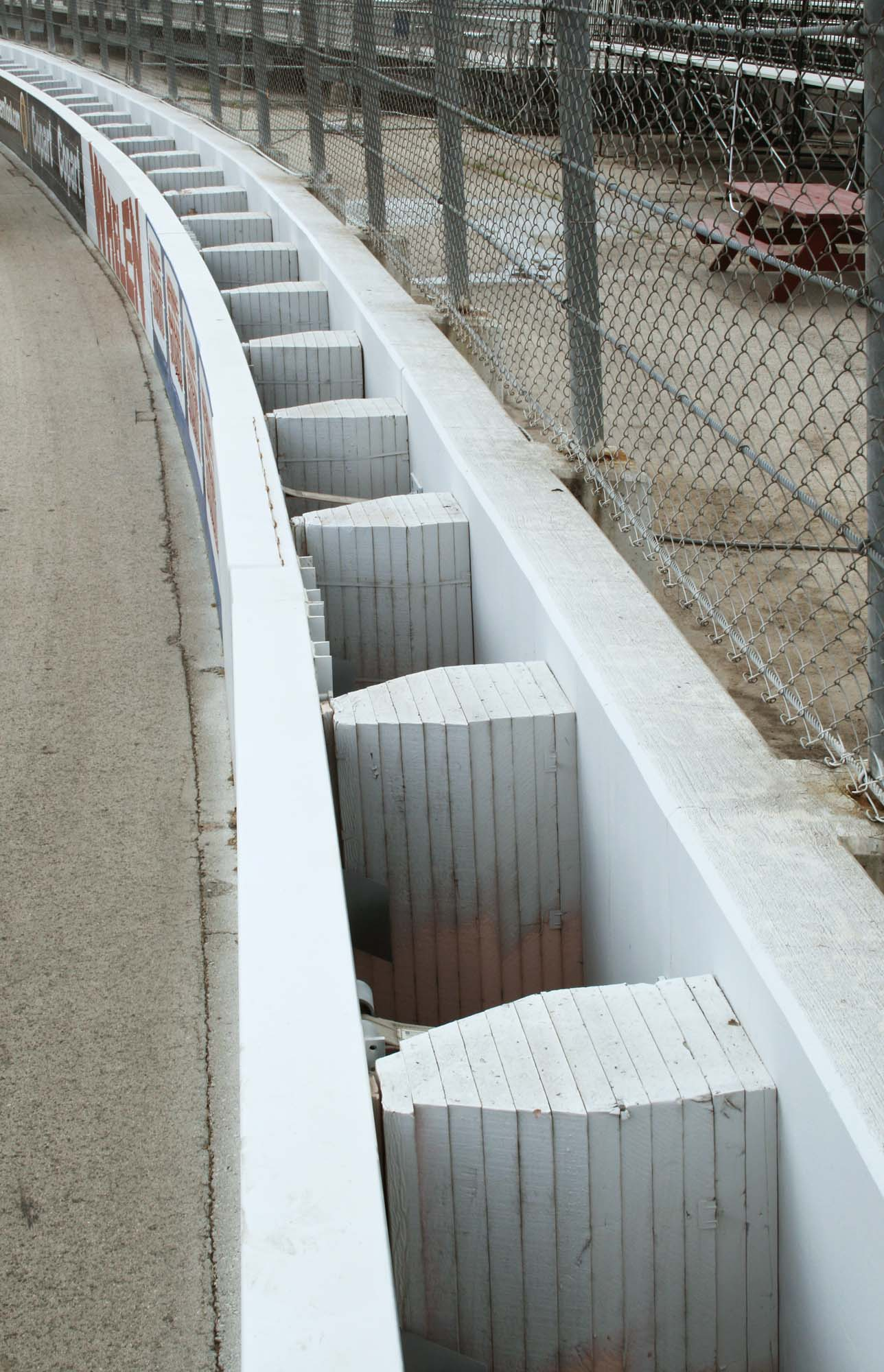 The outside wall of the Milwaukee Mile race track. The wall on the right is concrete. The wall on the left is steel box channel. In between are bumpers made of pink foam used in home construction.